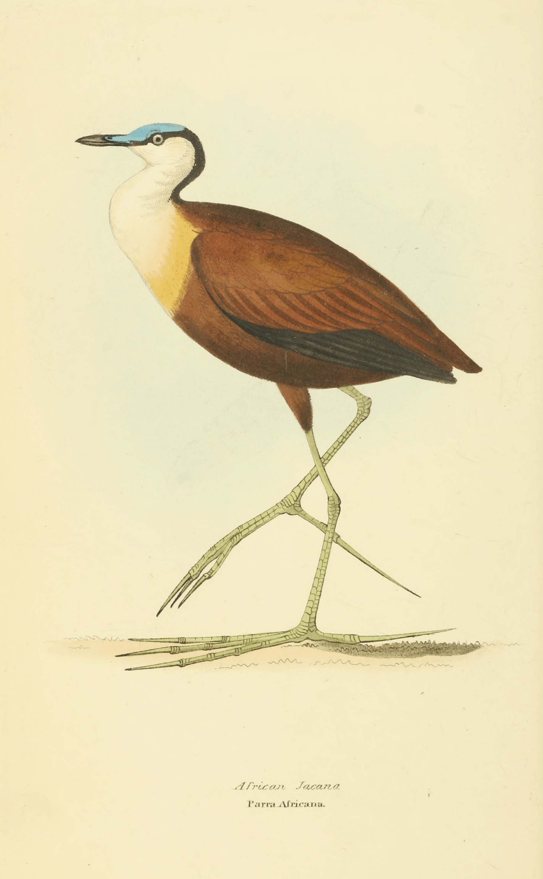 Plate from Zoological illustrations, Volume 1, 2nd series. African Jacana. Parra Africana Latham. Accepted as Actophilornis africanus[1]